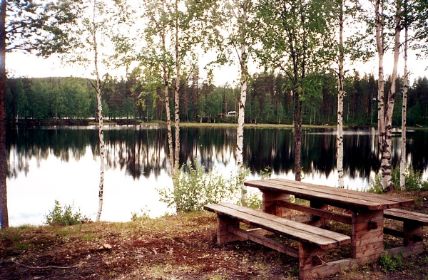 Ekopark Käringberget, Åsele Municipality, Sweden.